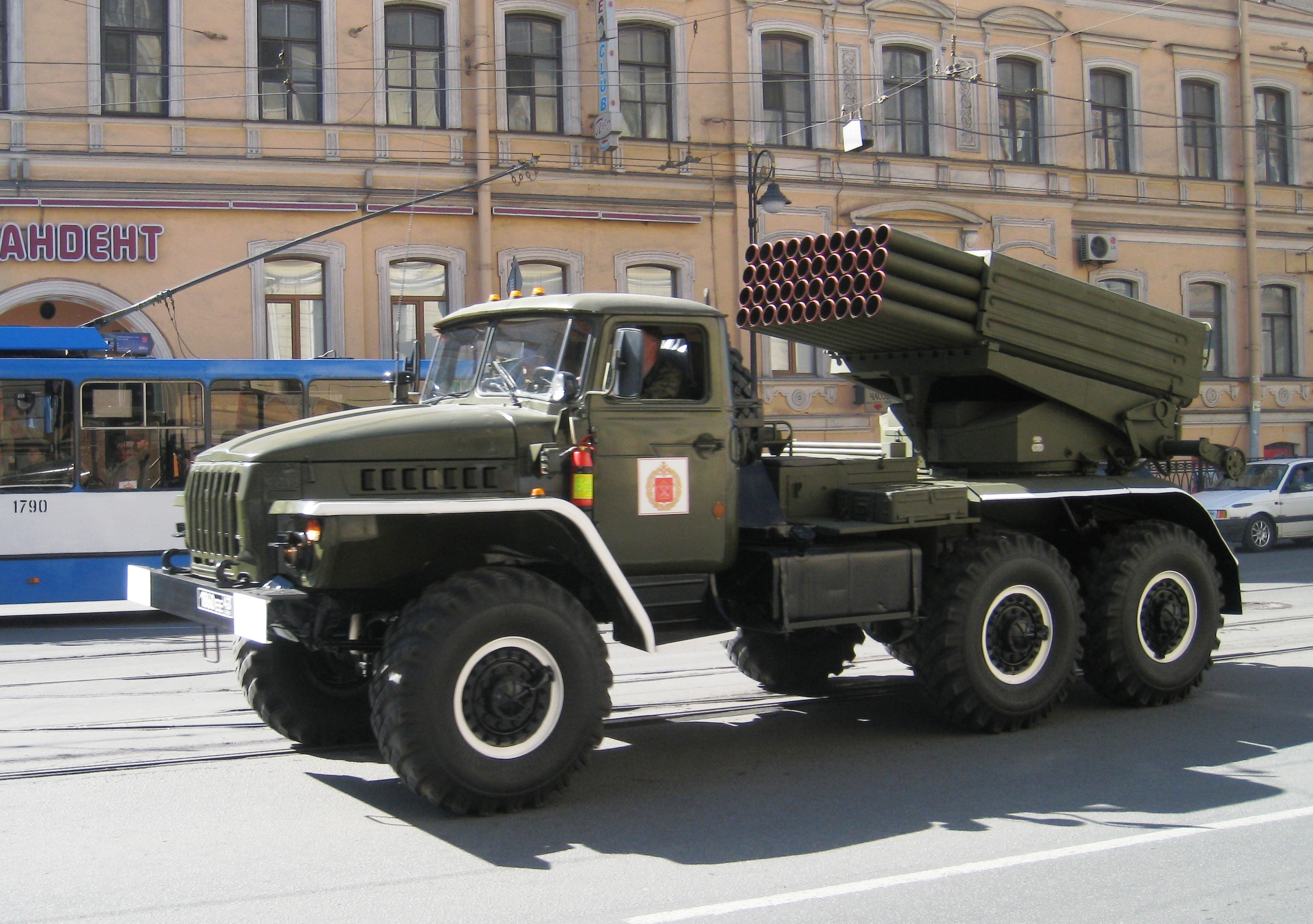 A Russian BM-21 Grad rocket launcher on a Ural-4320 chassis (2B17) in Saint Petersburg before the Victory Parade.